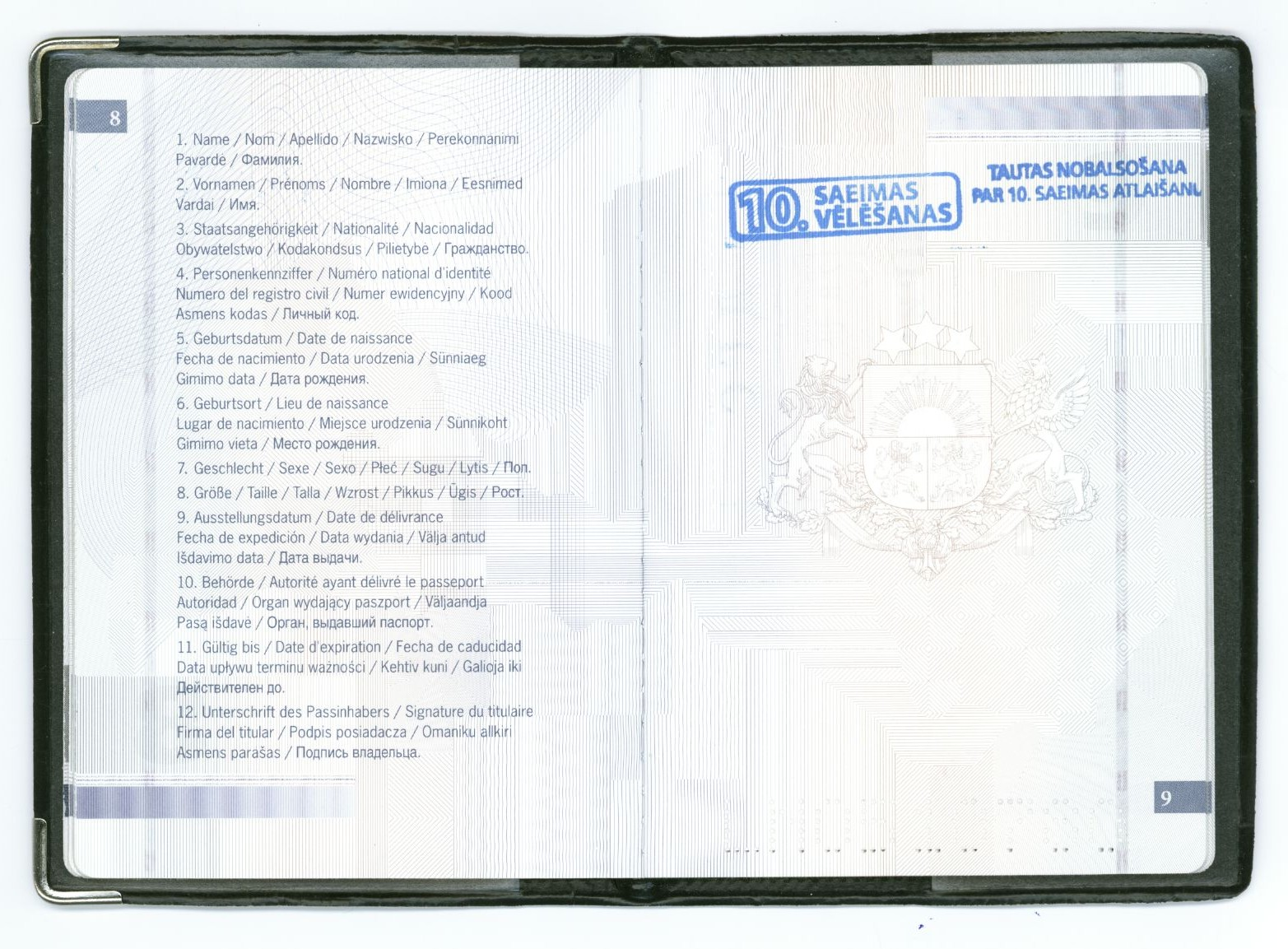 Stamps of the election and the dissolution referendum of 10th parliament in the passport of a citizen of Latvia. Latgaļu: Mīgtivi Latvejis pilīta pasē ap juo pīsadaleitību 10 Seimys ībolsuošonā i referendumā.